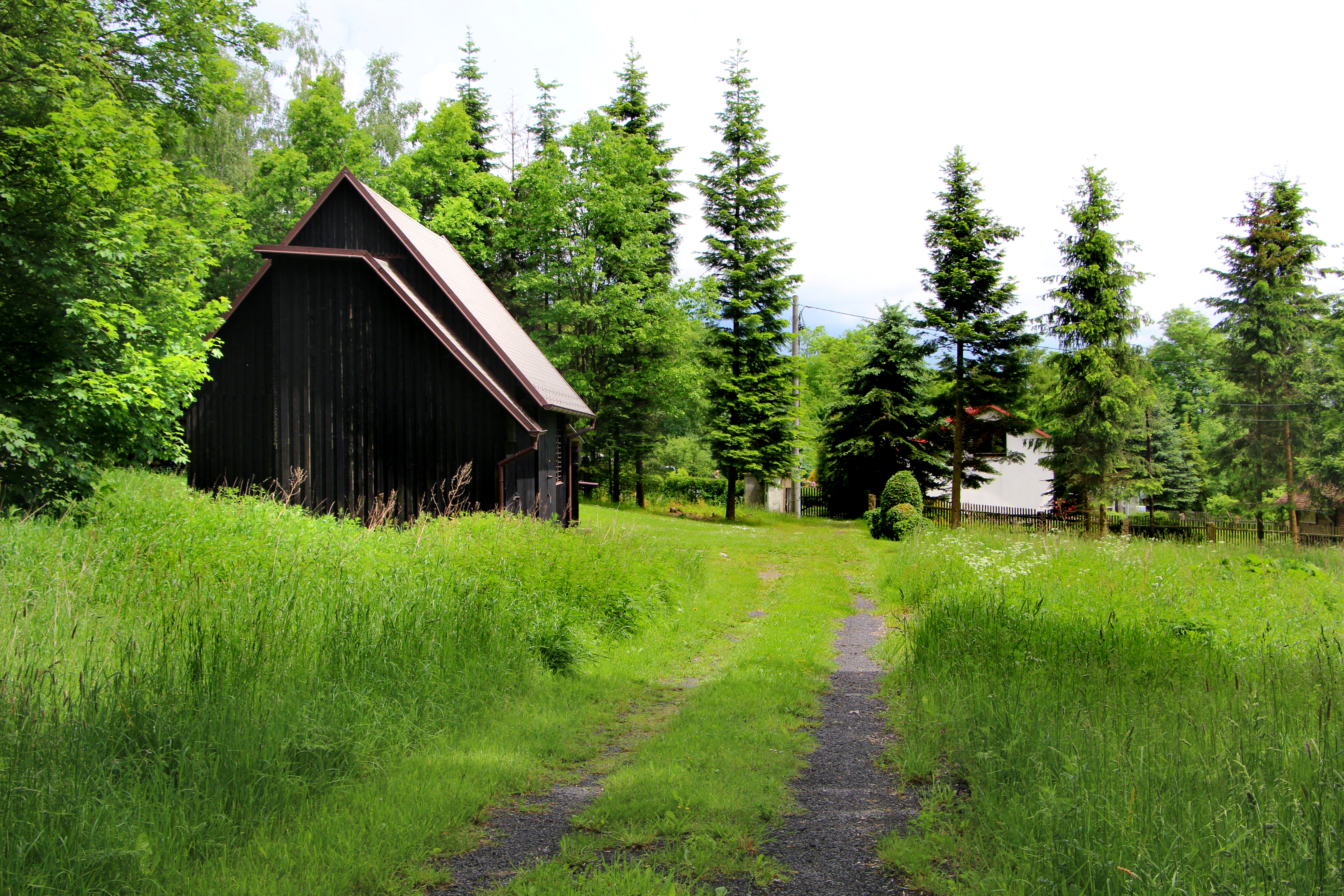 Nezdice, part of Teplá, Czech Republic.